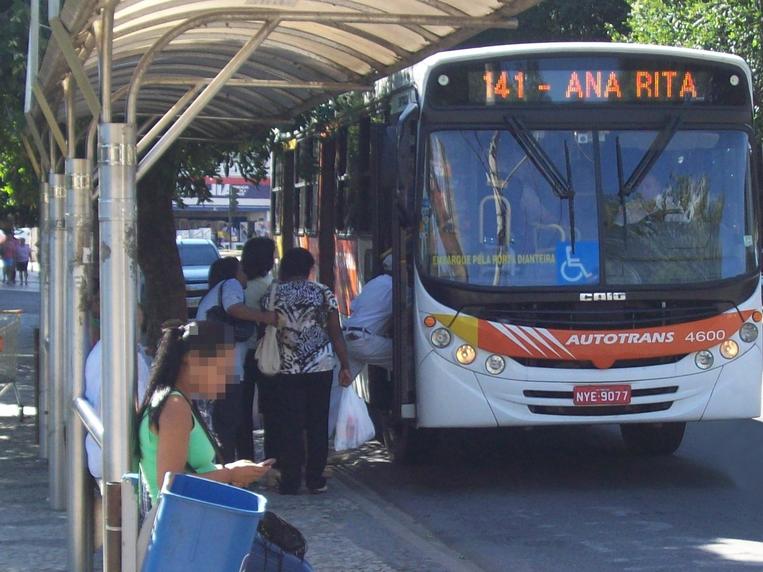 CAIO Apache Vip II bus (#4600) of the Autotrans company in a bus stop in the Juscelino Kubitschek Avenue, in Timóteo, Minas Gerais, Brazil.